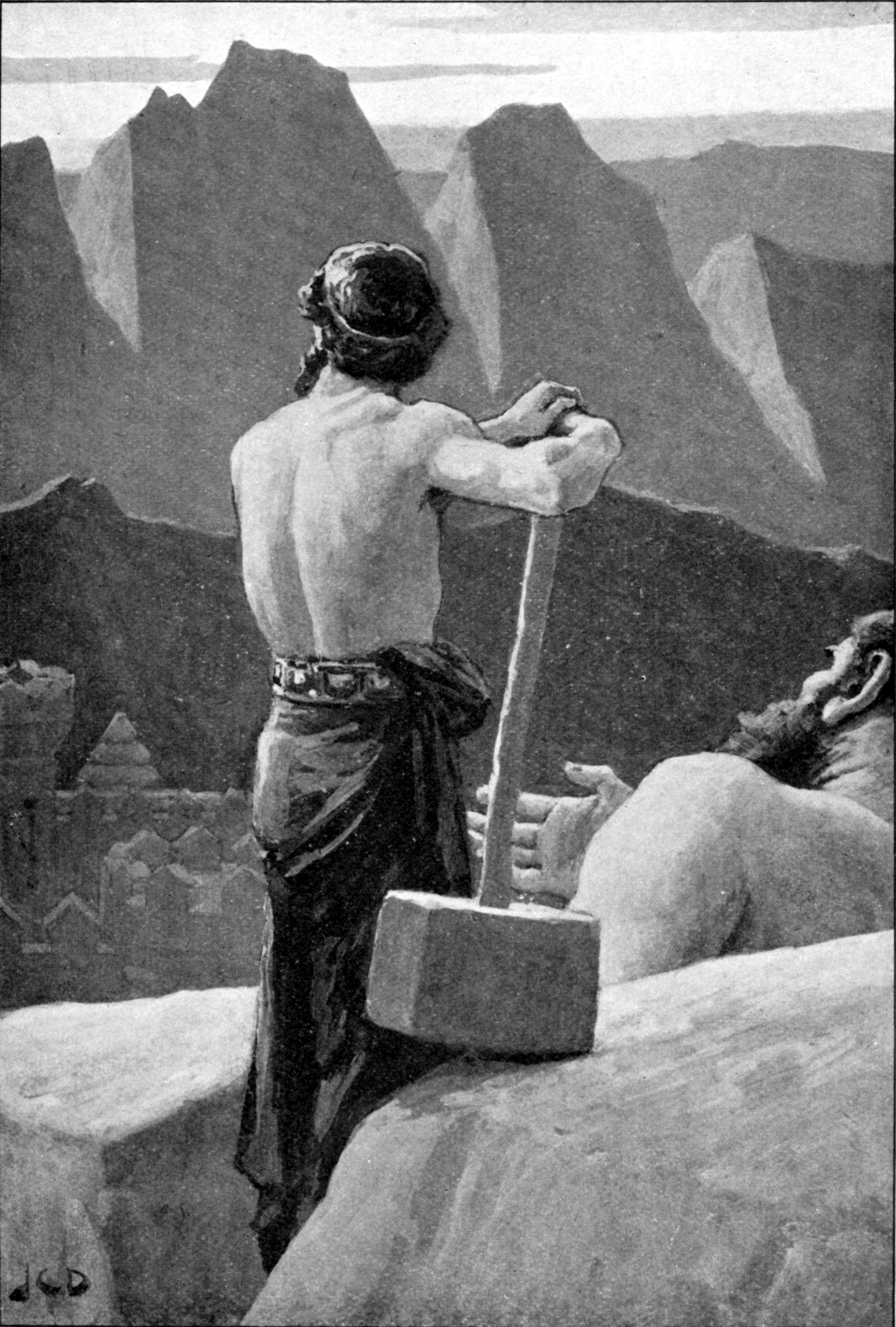 Thor and the Mountain (the title given to the work in the list of illustrations on page vii). Útgarða-Loki explains to Thor the illusions he has been fooled with. He shows him a mountain with three deep clefts, indicating three strikes of Thor's hammer.